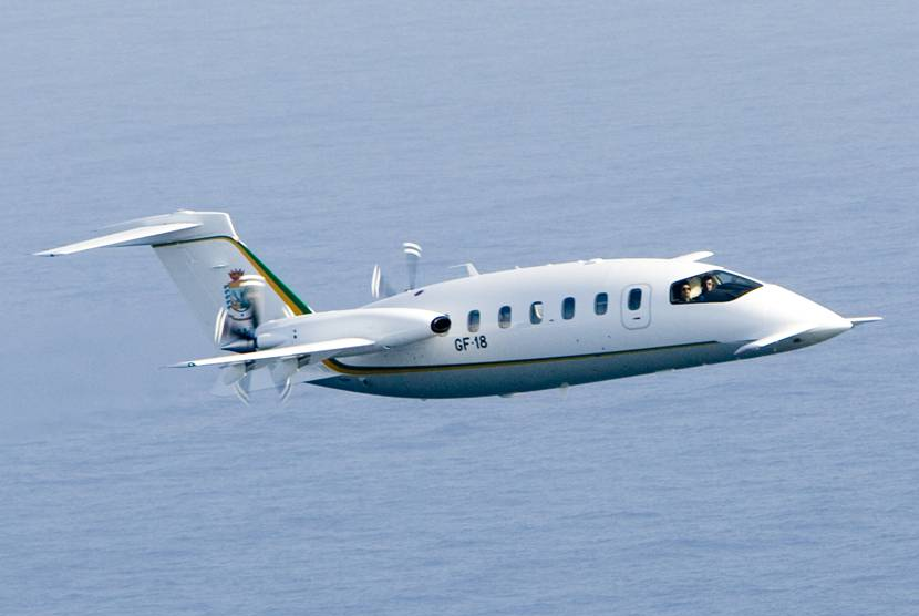 Avanti II